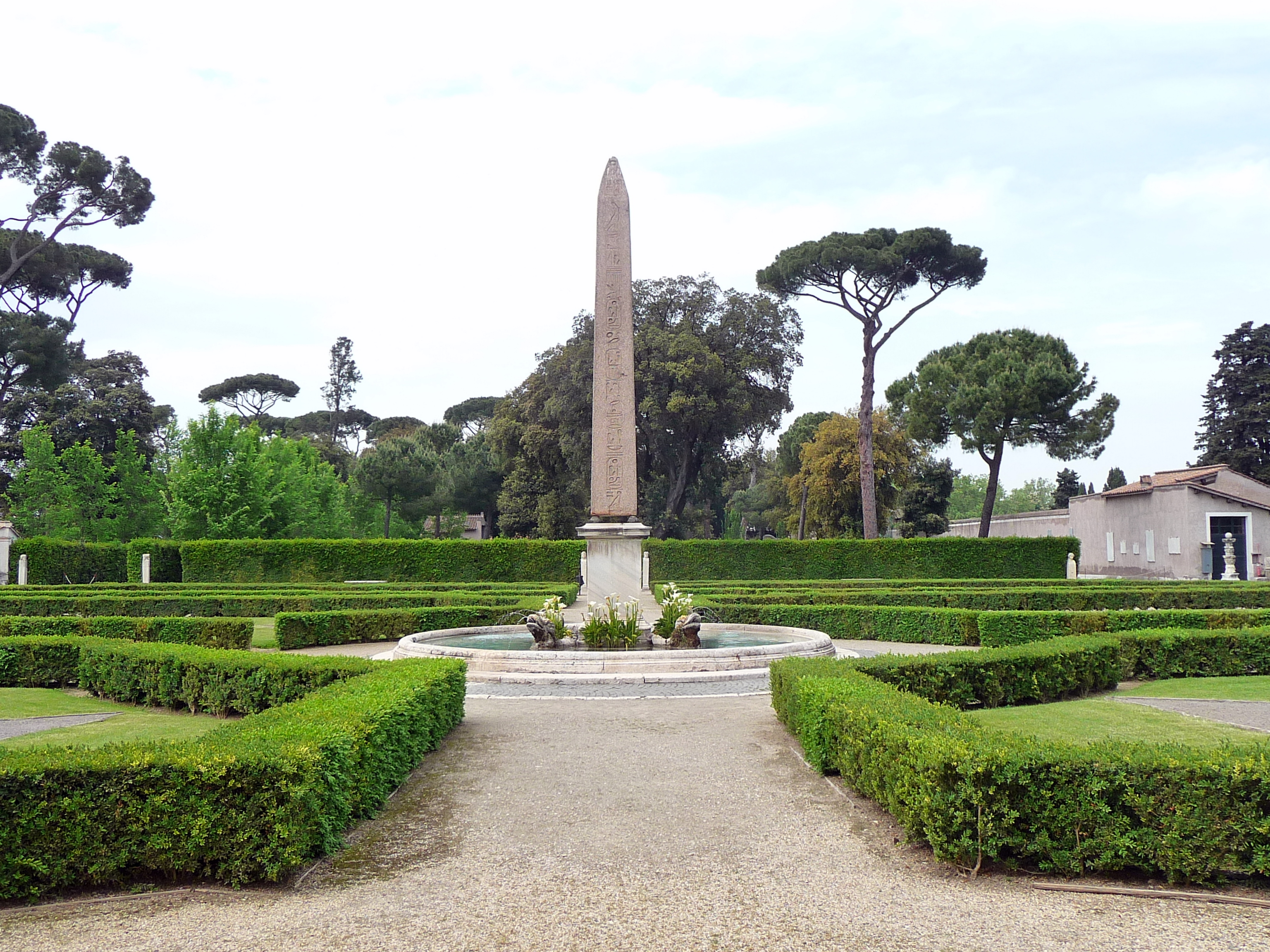 Villa Medici in Rome, garden and obelisk